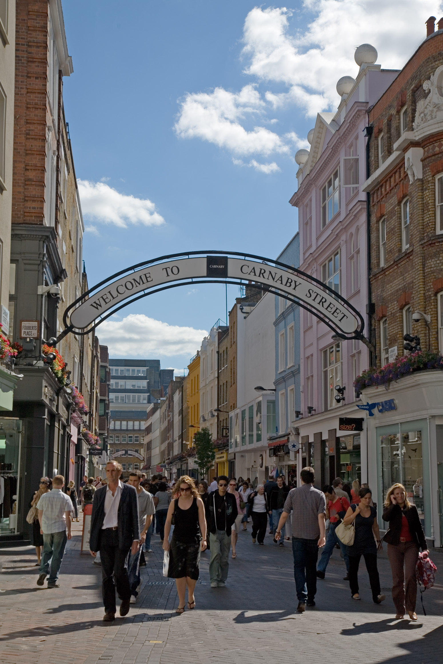 Carnaby Street from Great Marlborough Street, looking south. Taken by myself with a Canon 5D and 24-105mm f/4L IS lens.